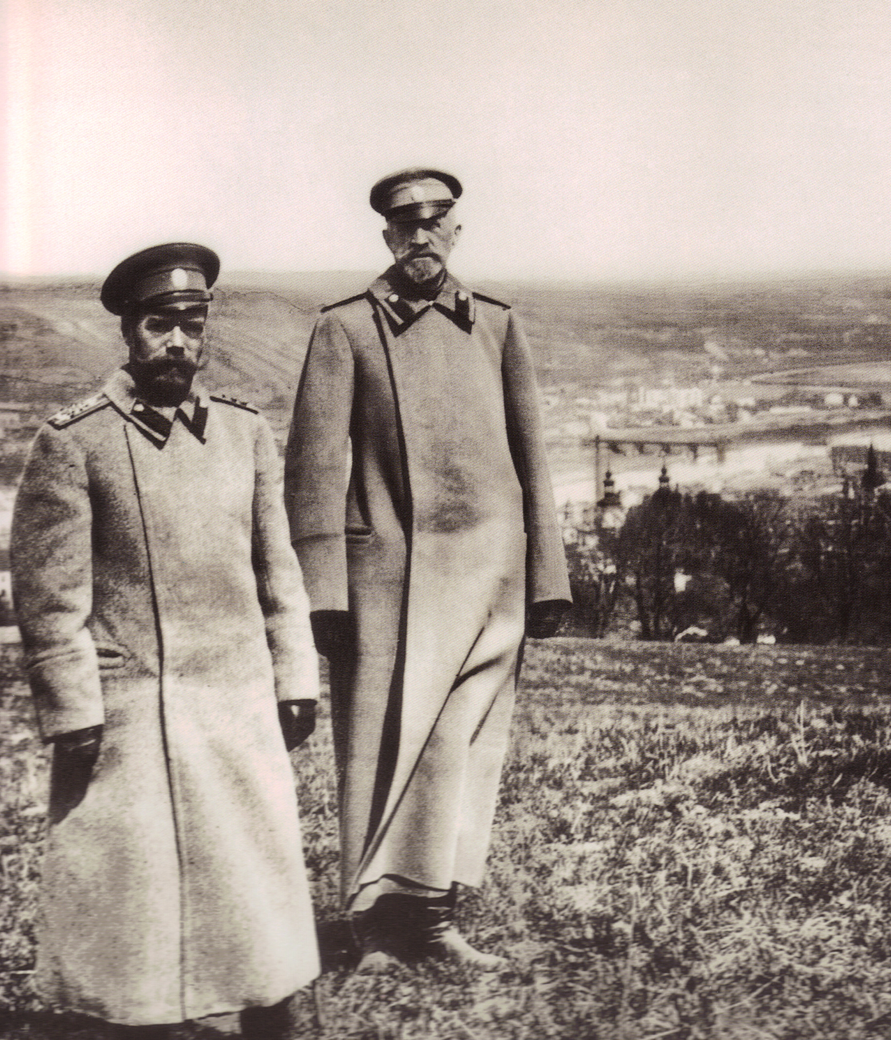 Nicholas II and Grand Duke Nicholas Nikolaevich of Russia (1856–1929)